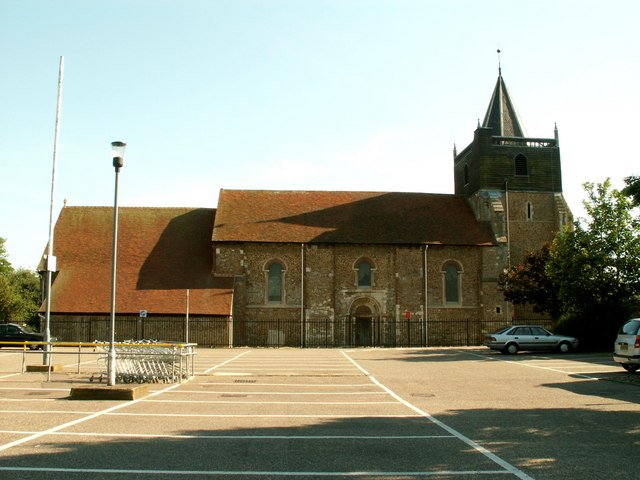 Parish church of St John the Baptist, Great Clacton, Essex, seen from the north from a supermarket car park